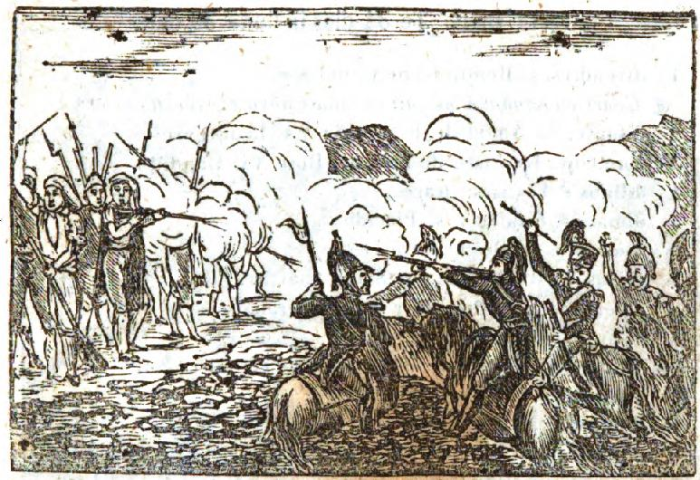 Image from the book Pronostich catala historic, geografic, astronomic, instructiu y religios per lo any 1847. French troops being shooted by miquelets, September, 1808.